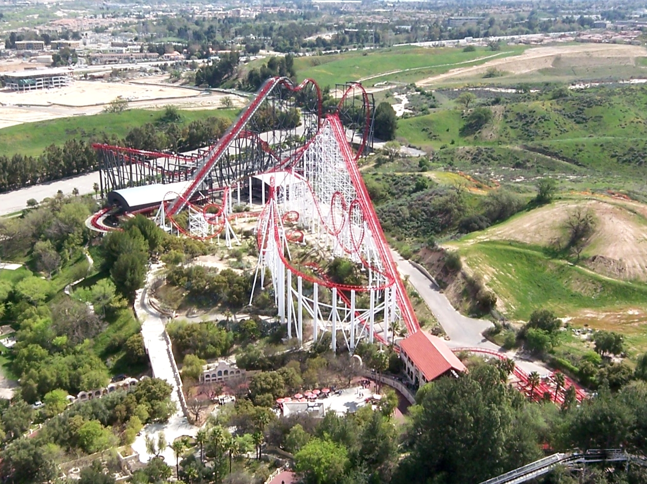 Viper and X at Six Flags Magic Mountain